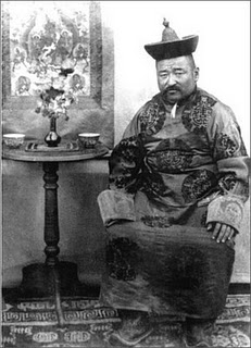 4th Eguuzer hutagt Galsandash